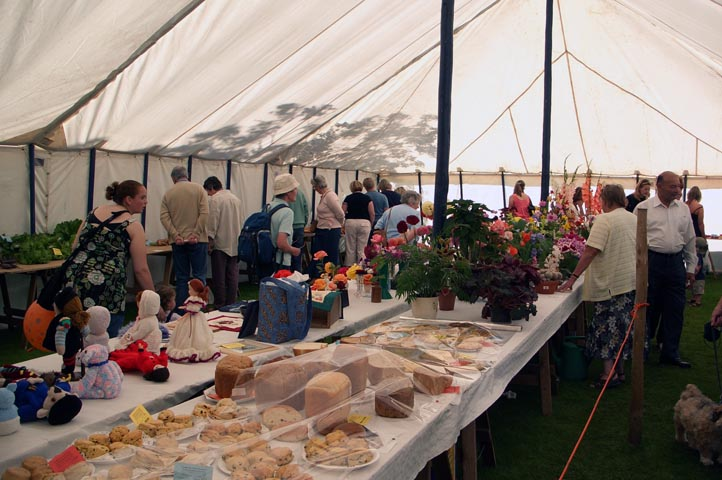 Produce on Display at Lealholm Show, Lealholm, North Yorkshire